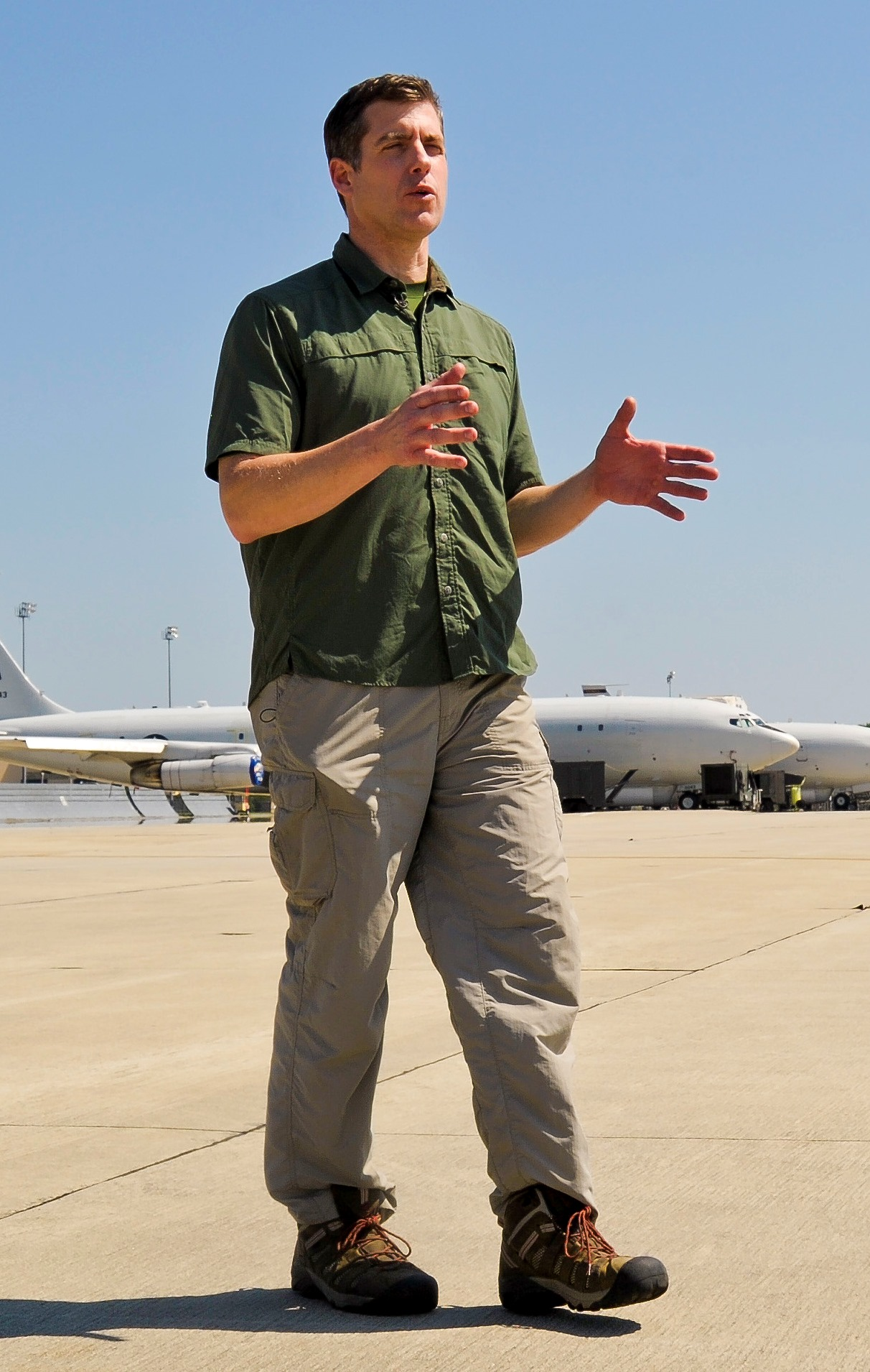 Reynolds Wolf, CNN correspondent, puts the finishing touches on a report about Team JSTARS while standing in front of a row of E-8C Joint STARS at Robins Air Force Base, Ga., March 27, 2012.